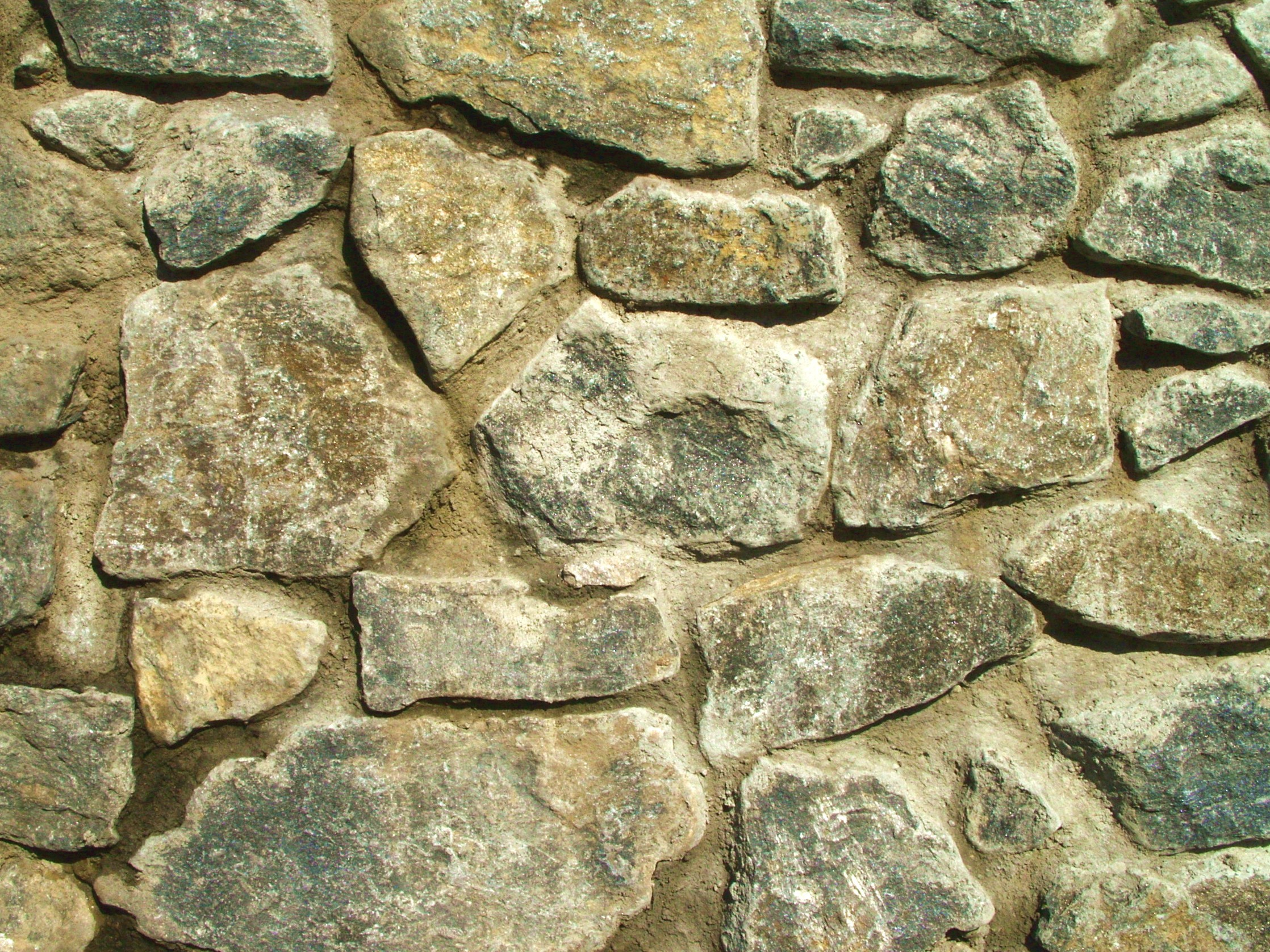 Stone Wall on the Blackstone River Bikeway in Worcester, Massachusetts, US.